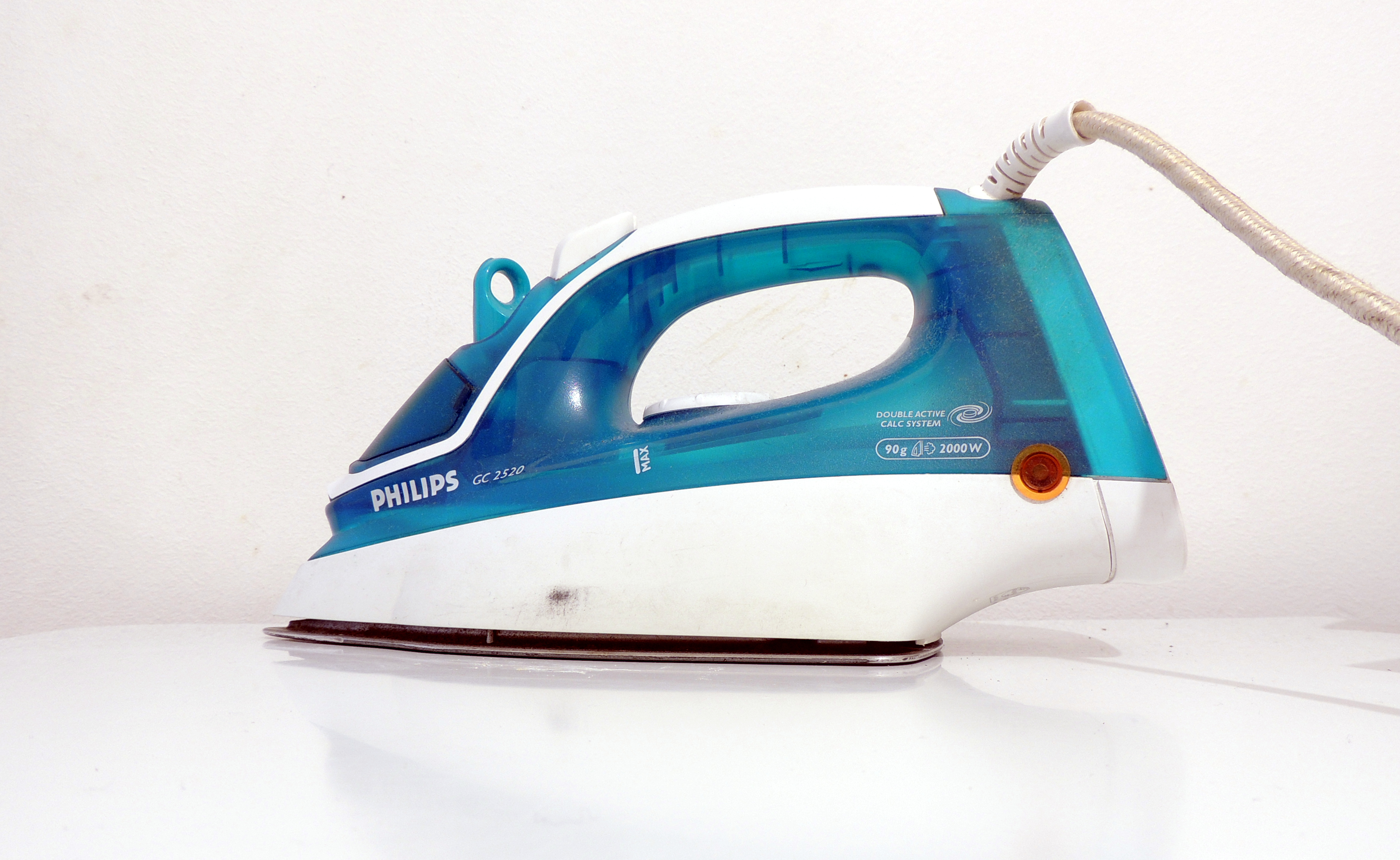 Clothes iron Philips GC2520